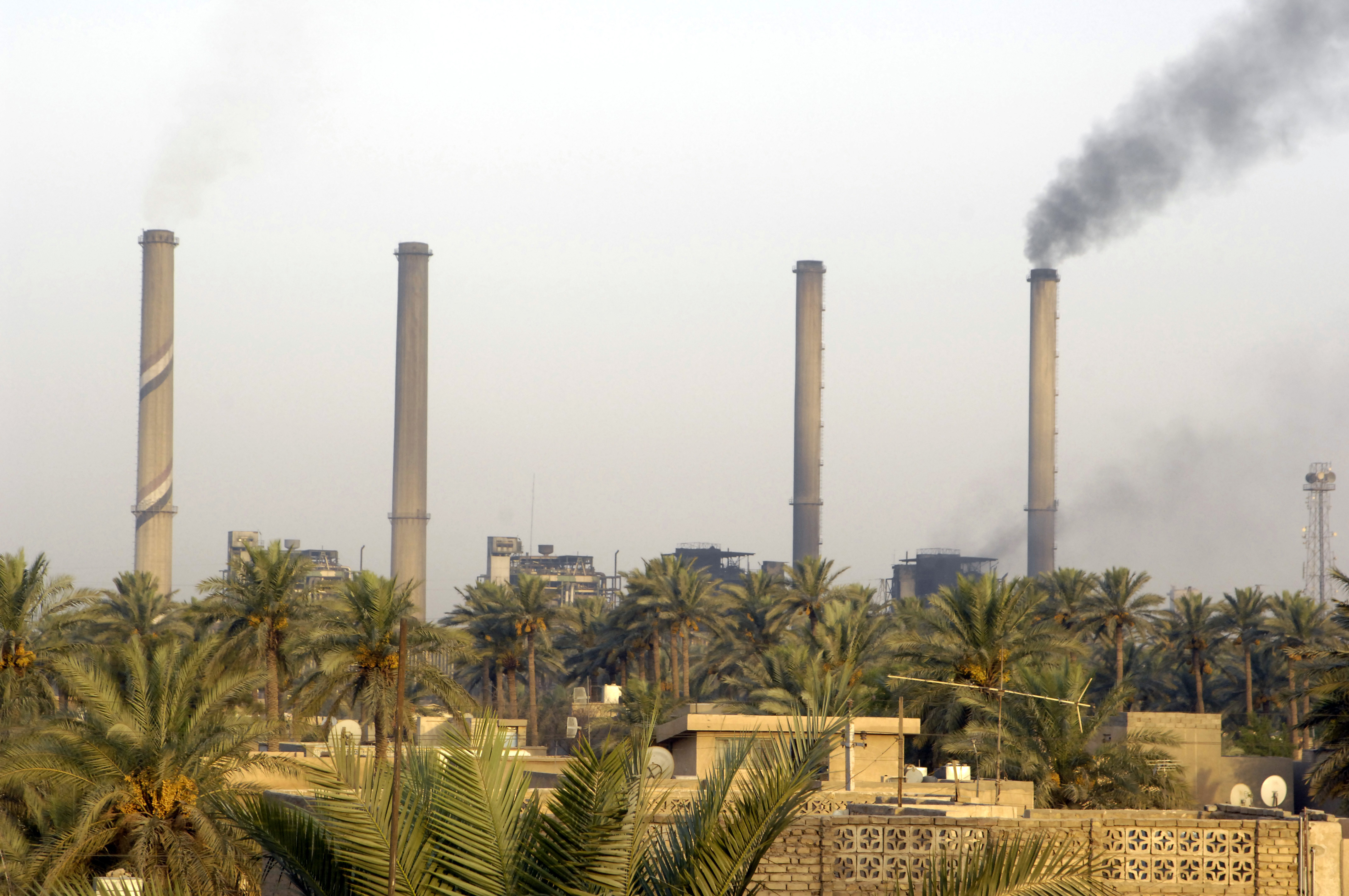 Smoke rises from one of the chimneys at the power plant in Dora, southern Baghdad, Iraq, Aug. 1, 2007. The plant is responsible for generating much of the electricity used in Baghdad.